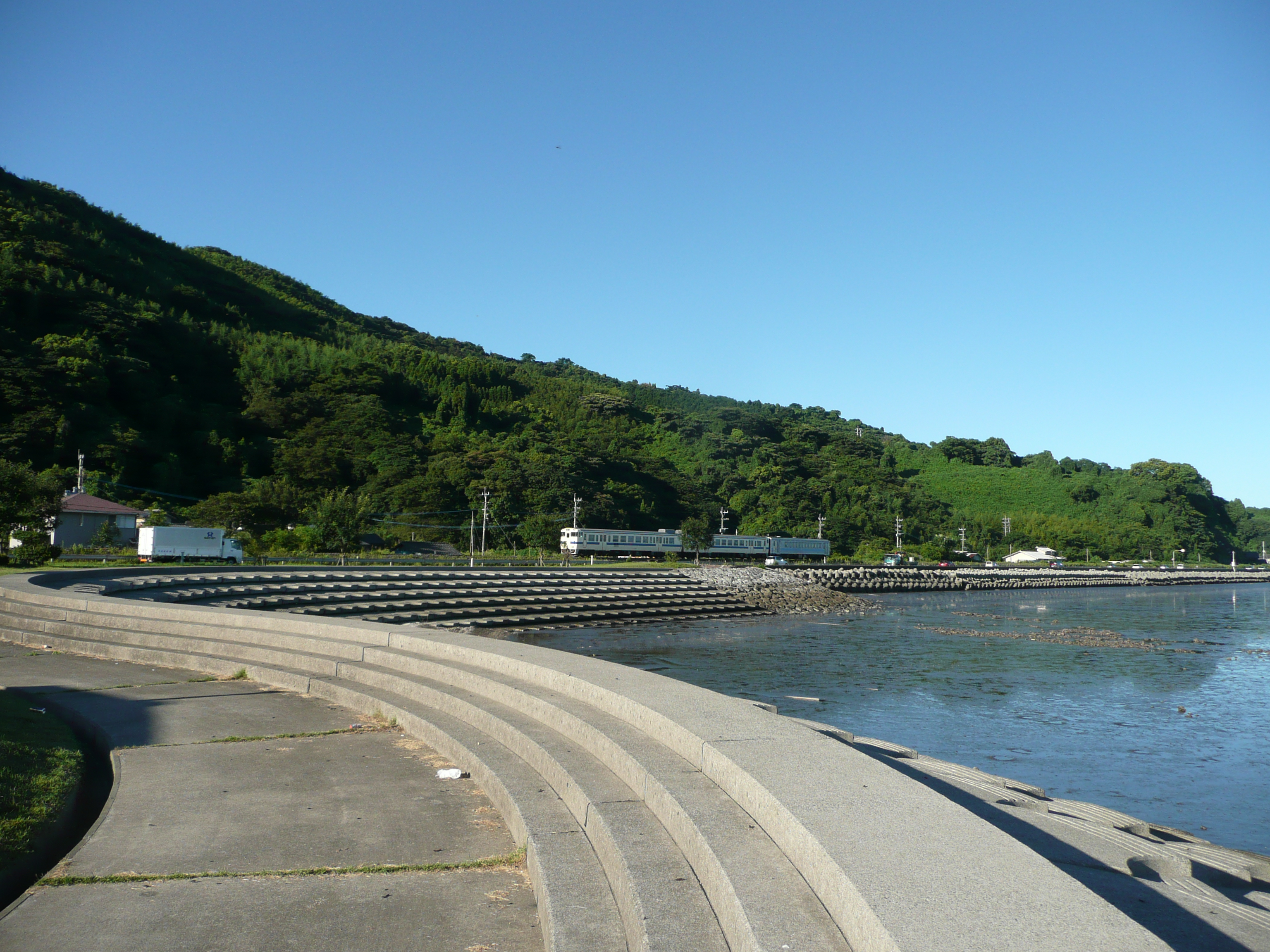 The JR Kyushu Misumi Line, between Sumiyoshi and Higo-Nagahama stations